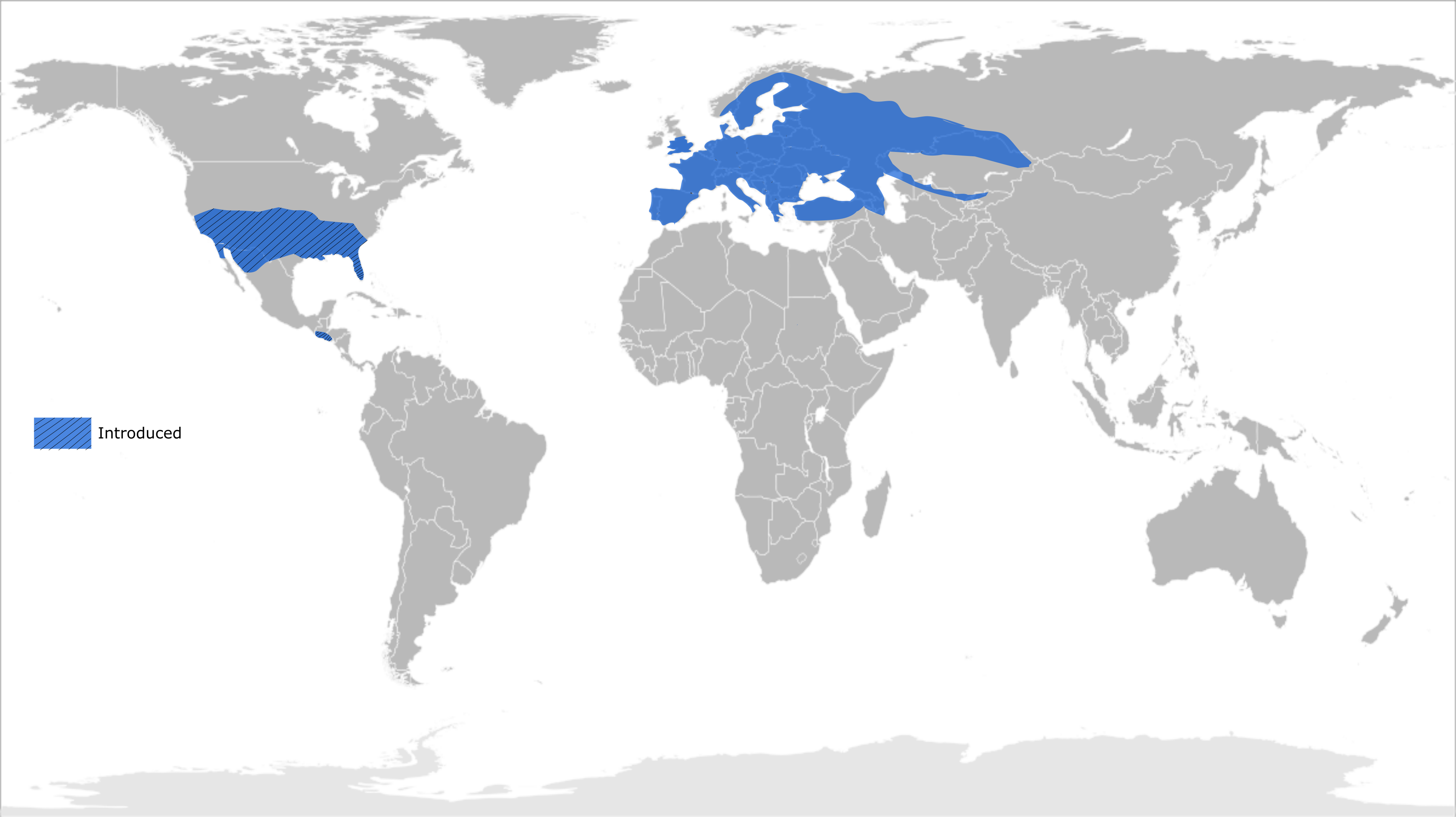 A distribution map for the beetle species Agelastica alni. Also called the alder leaf beetle, this species has a wide distribution in Europe, Siberia, north-eastern Kazakhstan and the Caucasus. The beetle species was introduced in the United States in the 19th century. Author, original blank SVG map: Frank Bennett Made with Inkscape